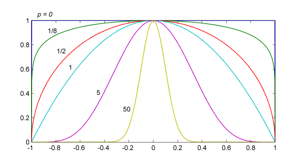 SuperparabolaLarge